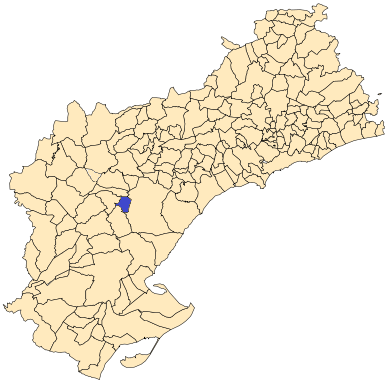 Ginestar